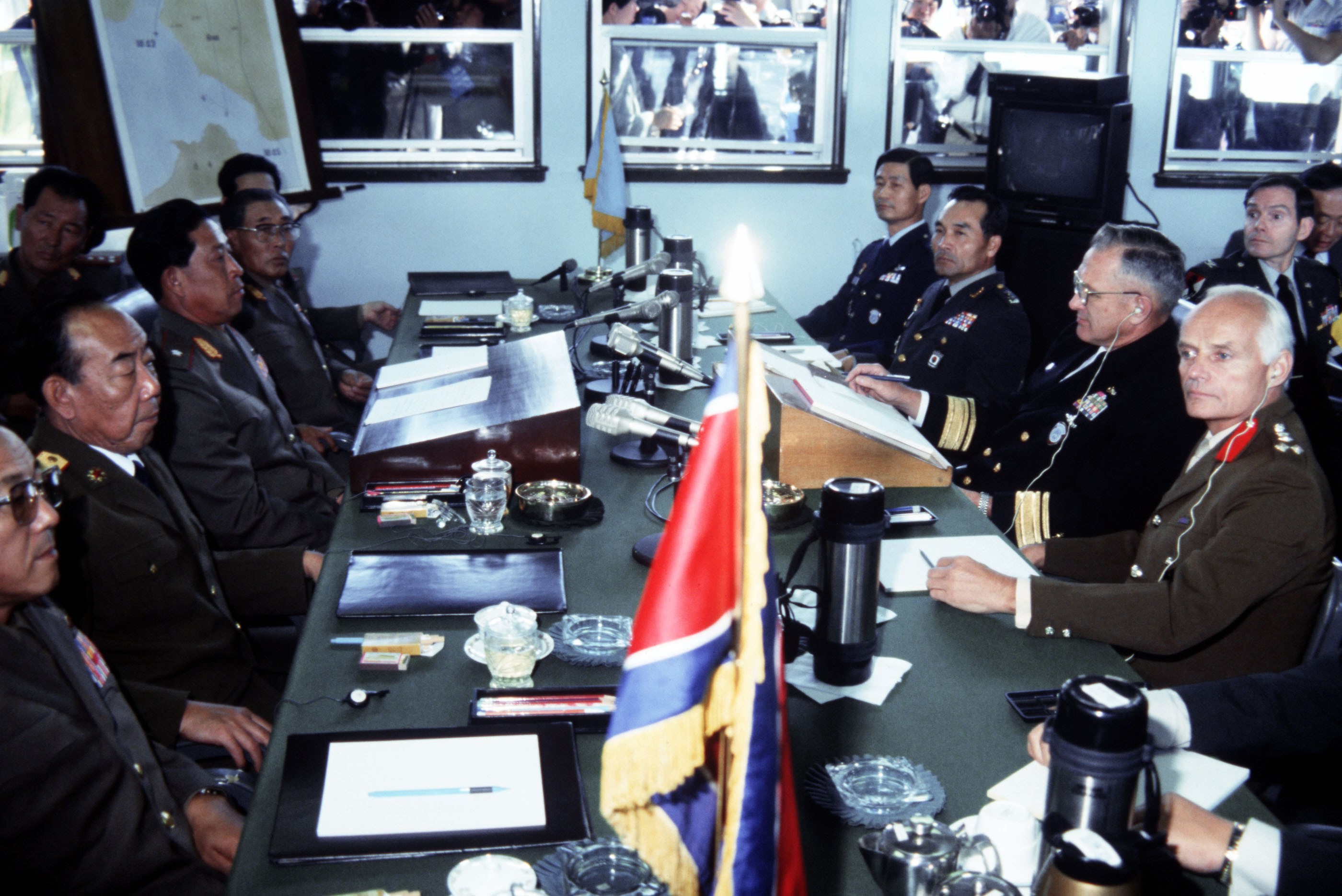 Rear Admiral Larry G. Vogt, center right, and other senior members of the United Nations Command face their North Korean counterparts across the negotiating table during the 458th Military Armistice Commission meeting. The meeting is being held in the Joint Security Area between North Korea and South Korea.